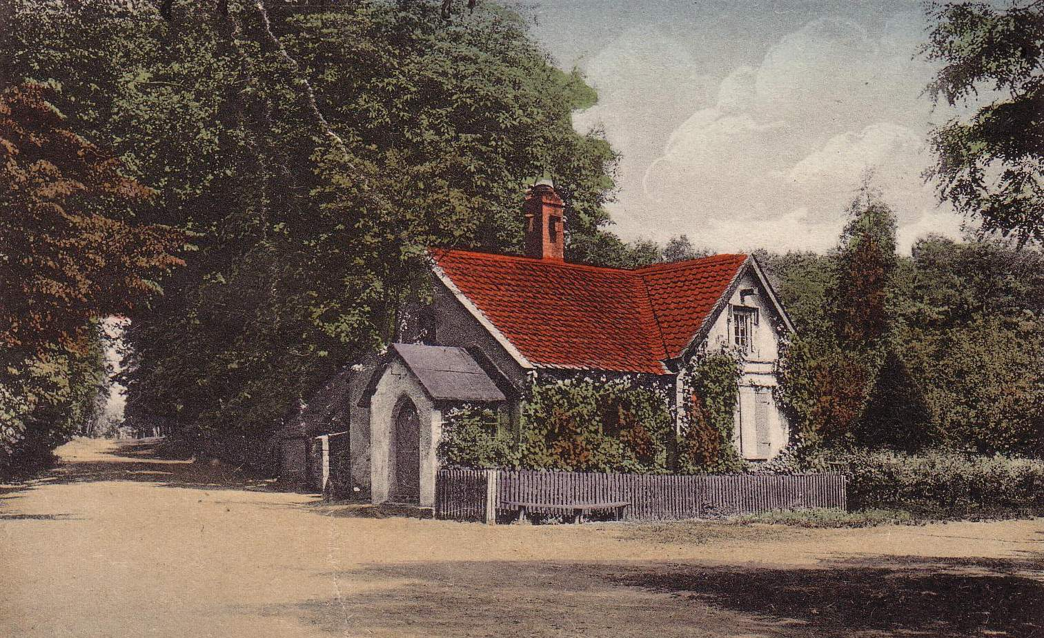 coloured postcard from Försterhaus in actual Landschaftspark Althaldensleben-Hundisburg (Germany)